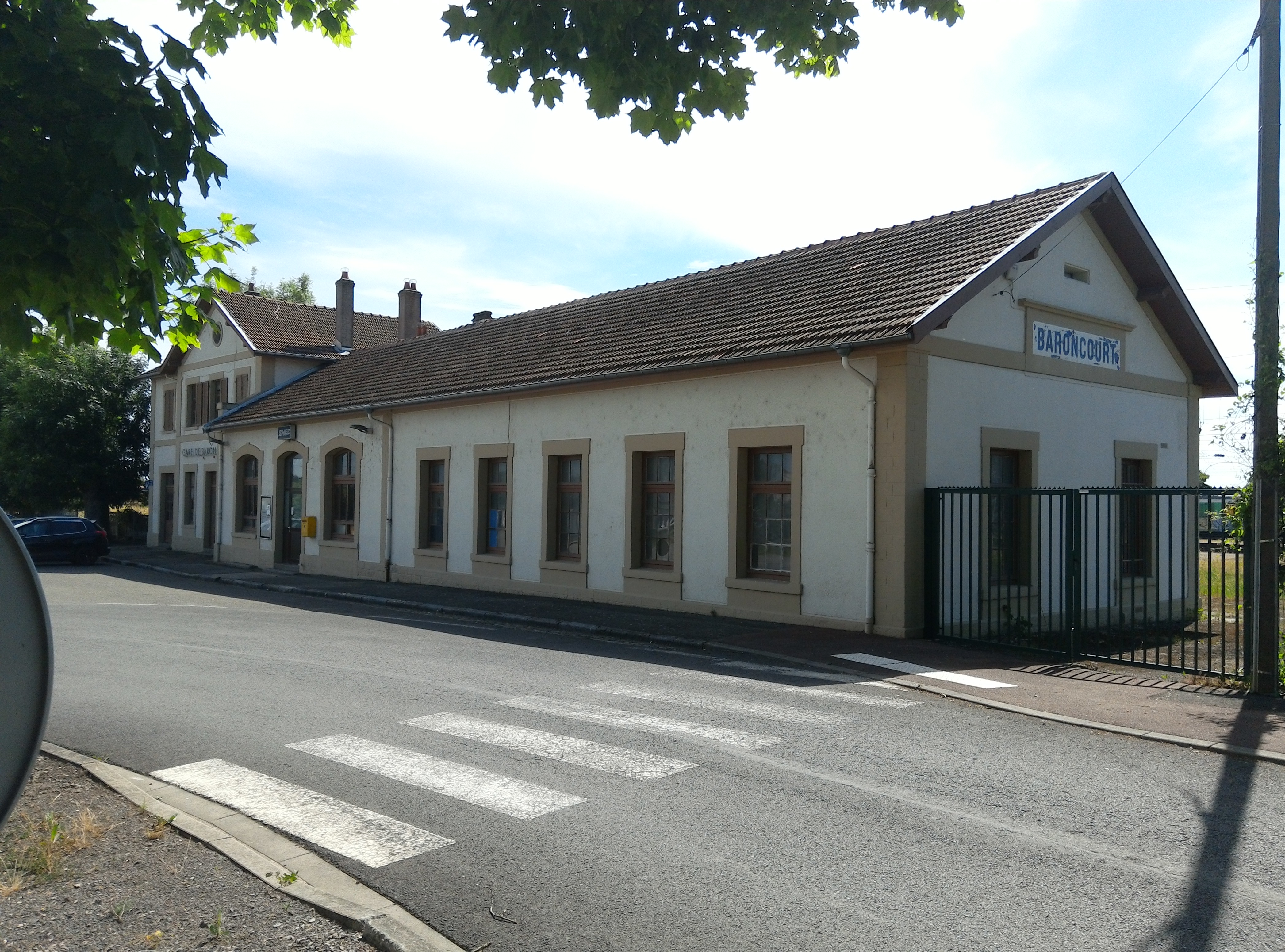 Baroncourt station, street side, France.